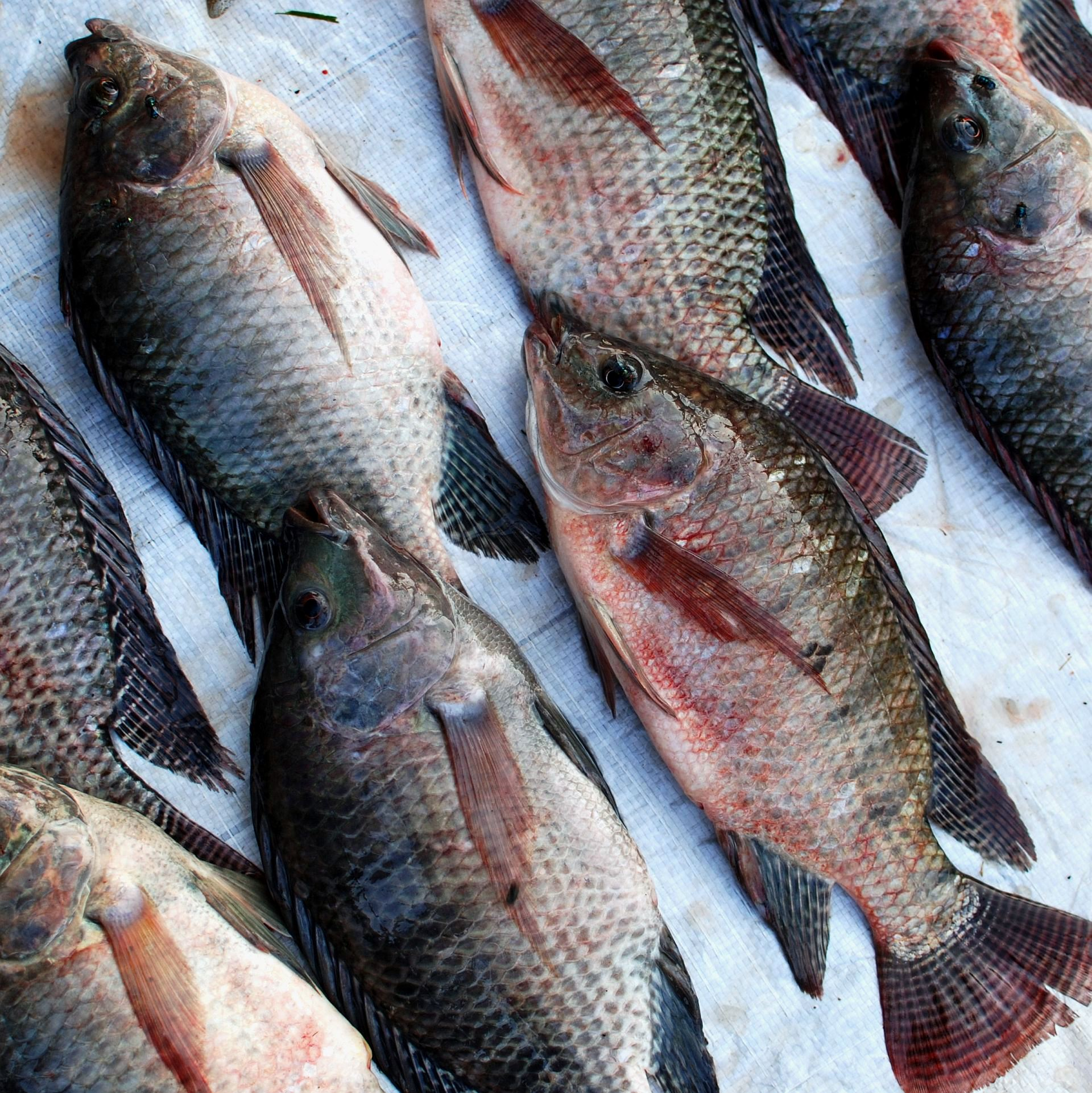 Live Pla nin (Thai script: ปลานิล - Oreochromis niloticus) on a table at a small market near the village of Mae On, Chiang Mai province, Thailand.